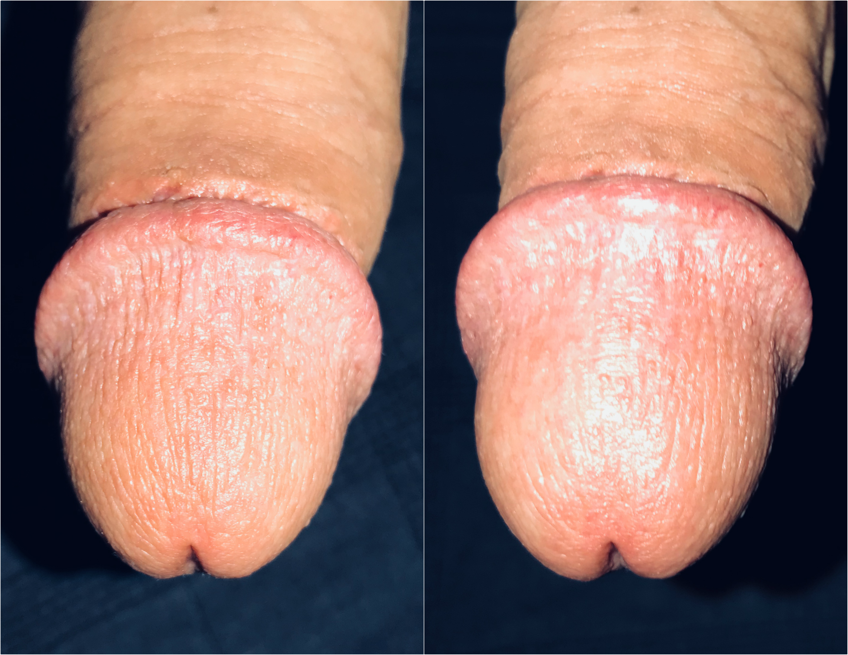 Normal glans (left) and flared glans (right) of an erect penis. The glans swells and flares outwards when a male flexes the muscles that surround the base of his penis. This also happens directly before and during ejaculation.